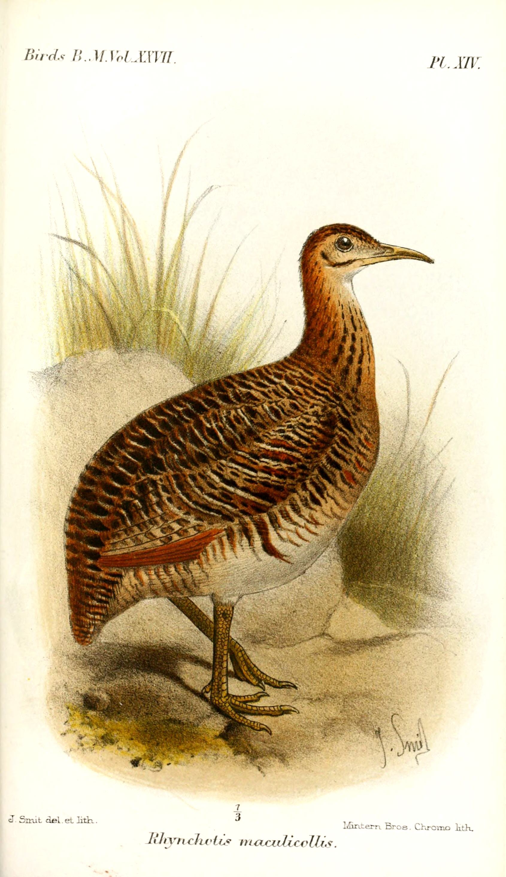 Rhynchotis maculicollis = Rhynchotus maculicollis, Huayco Tinamou